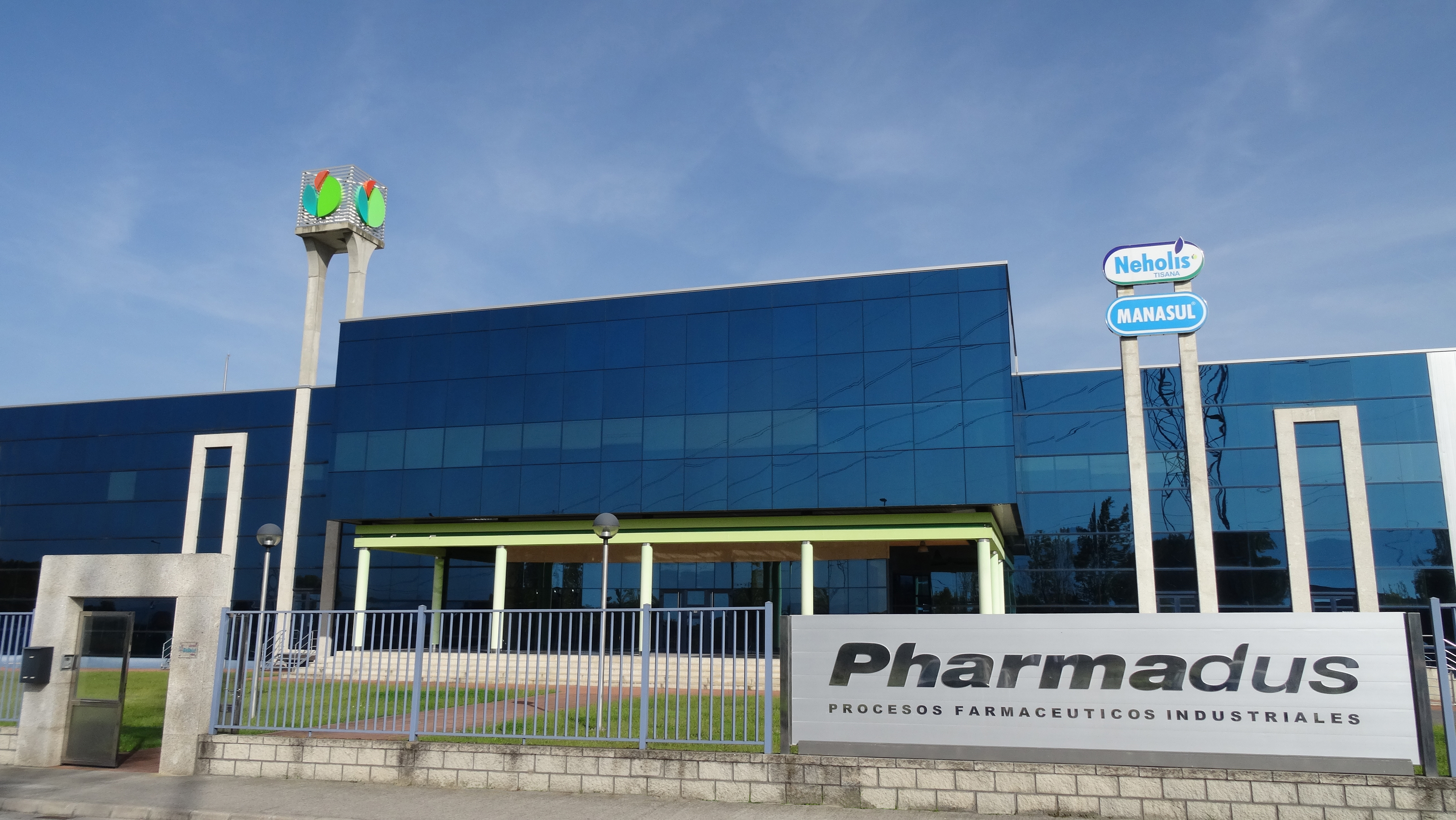 Pharmadus Sede Camponaraya